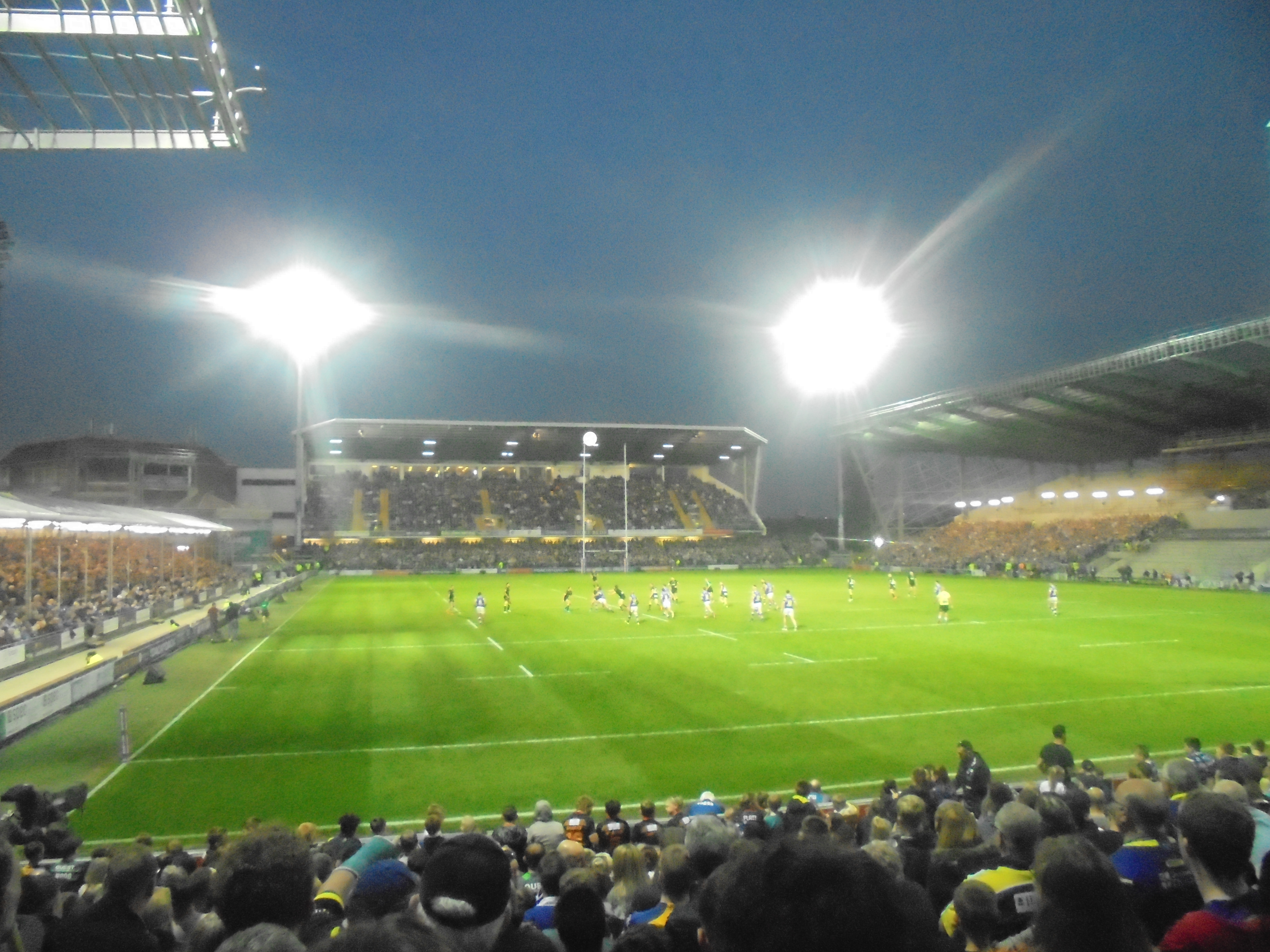 Leeds Rhinos v Warrington Wolves, Headingley Stadium, Leeds, West Yorkshire. The game finished Leeds 22- 33 Warrington. Taken on the evening of Friday the 4th of May 2018.